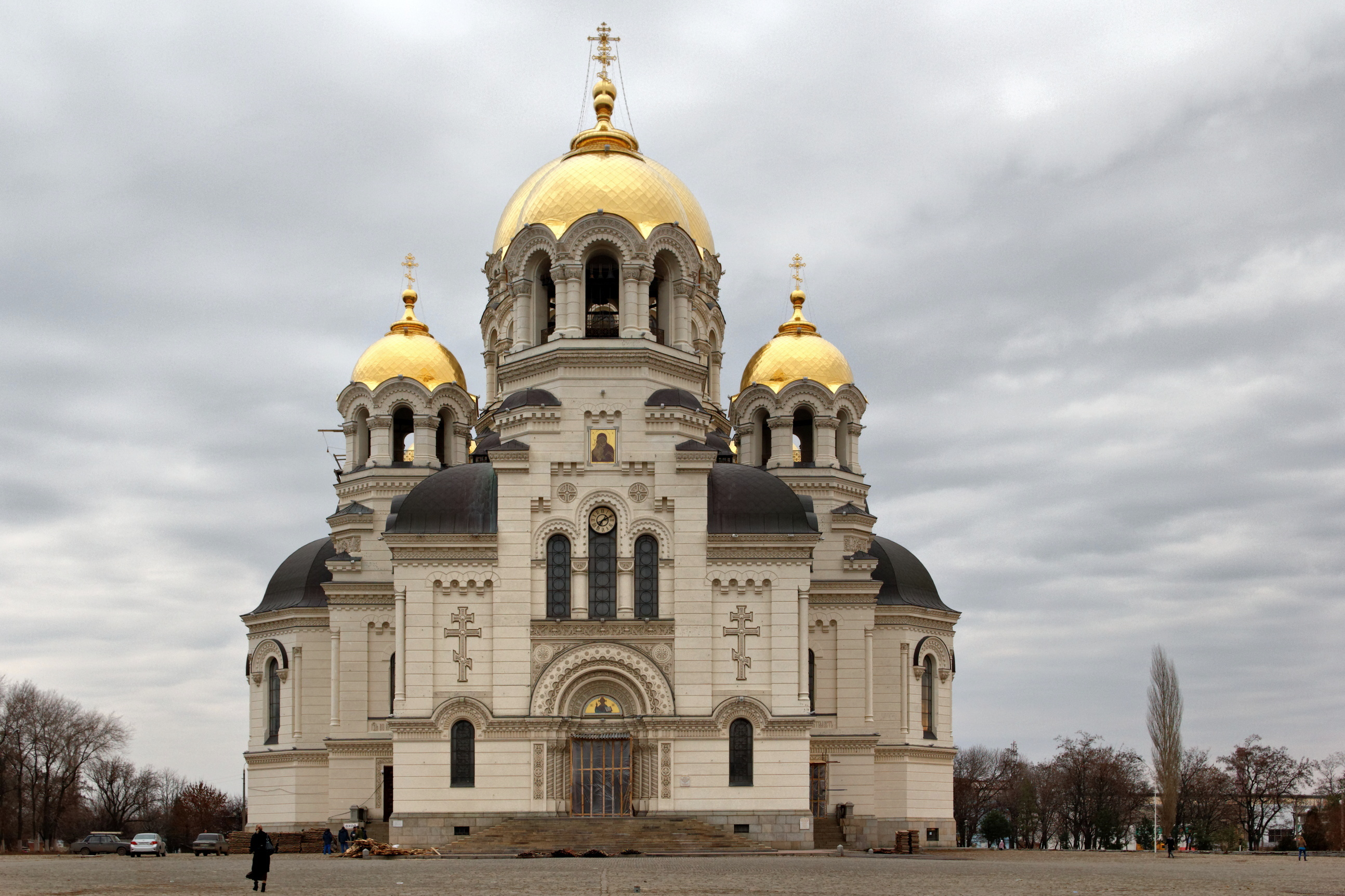 Novocherkassk. Ascension Cathedral